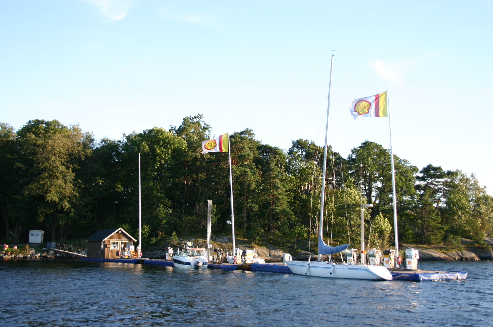 Petrol Station Pier for Boats